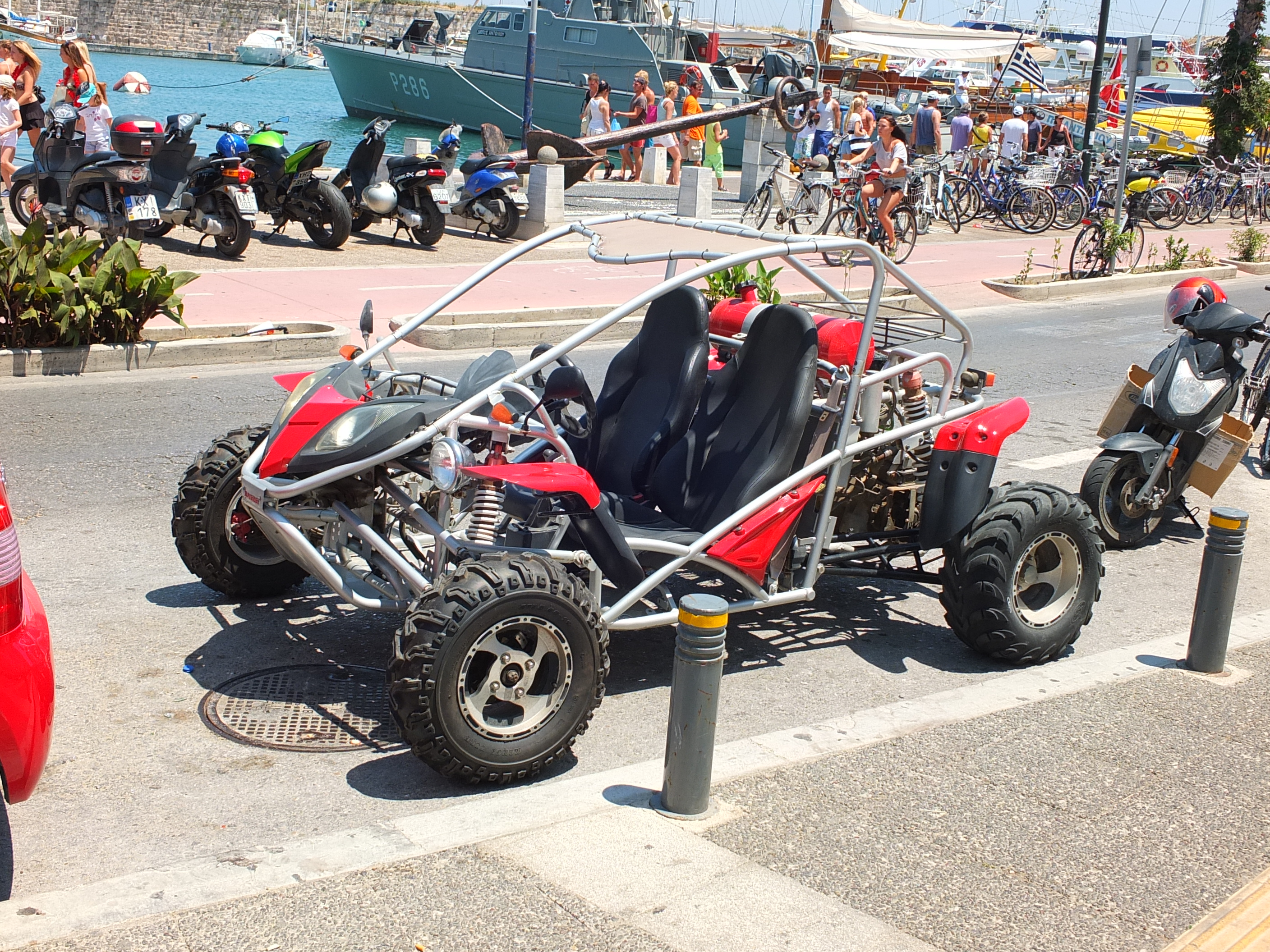 Jianshe quad on Kos (Greece).